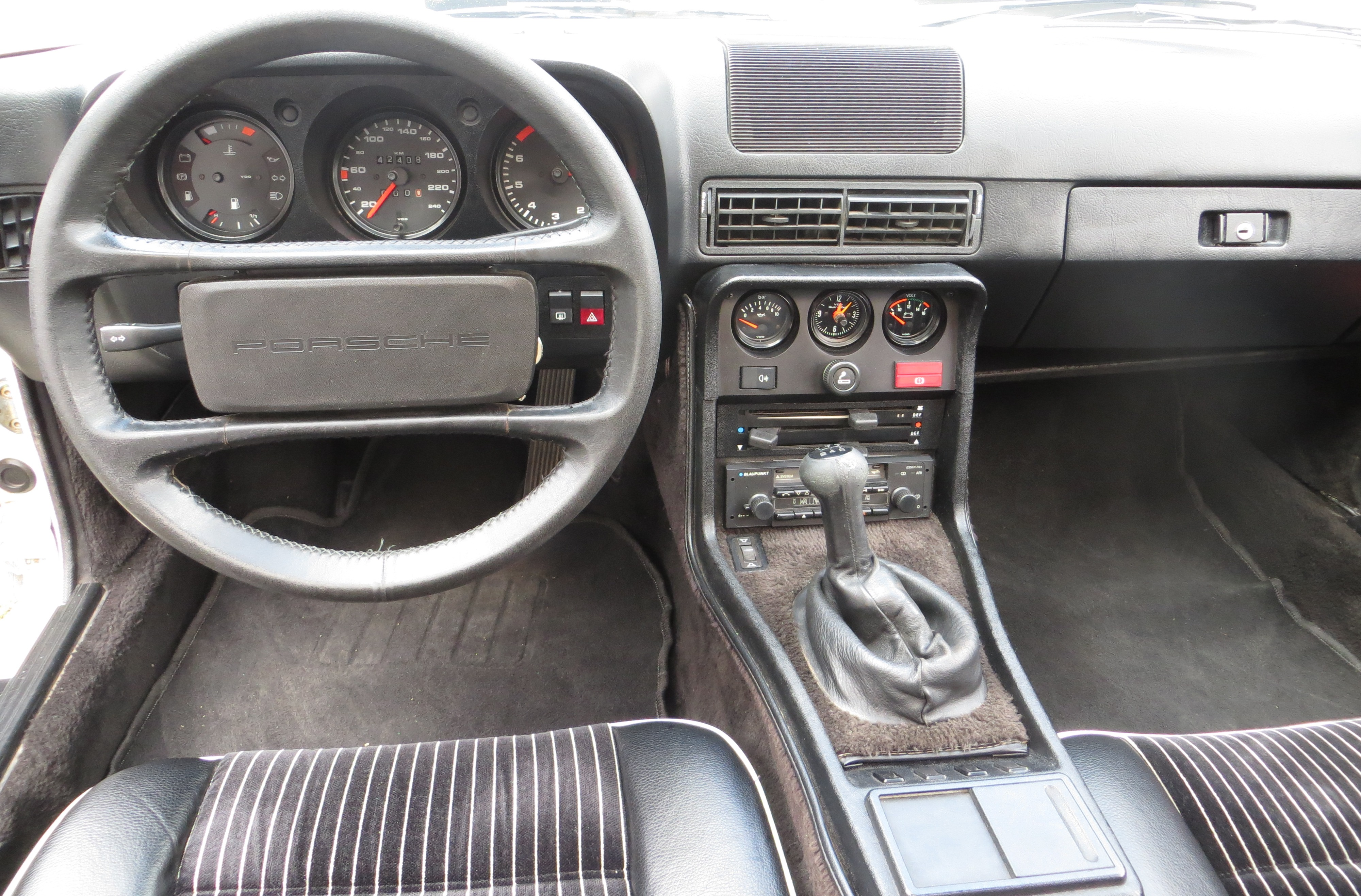 Porsche 924 cockpit